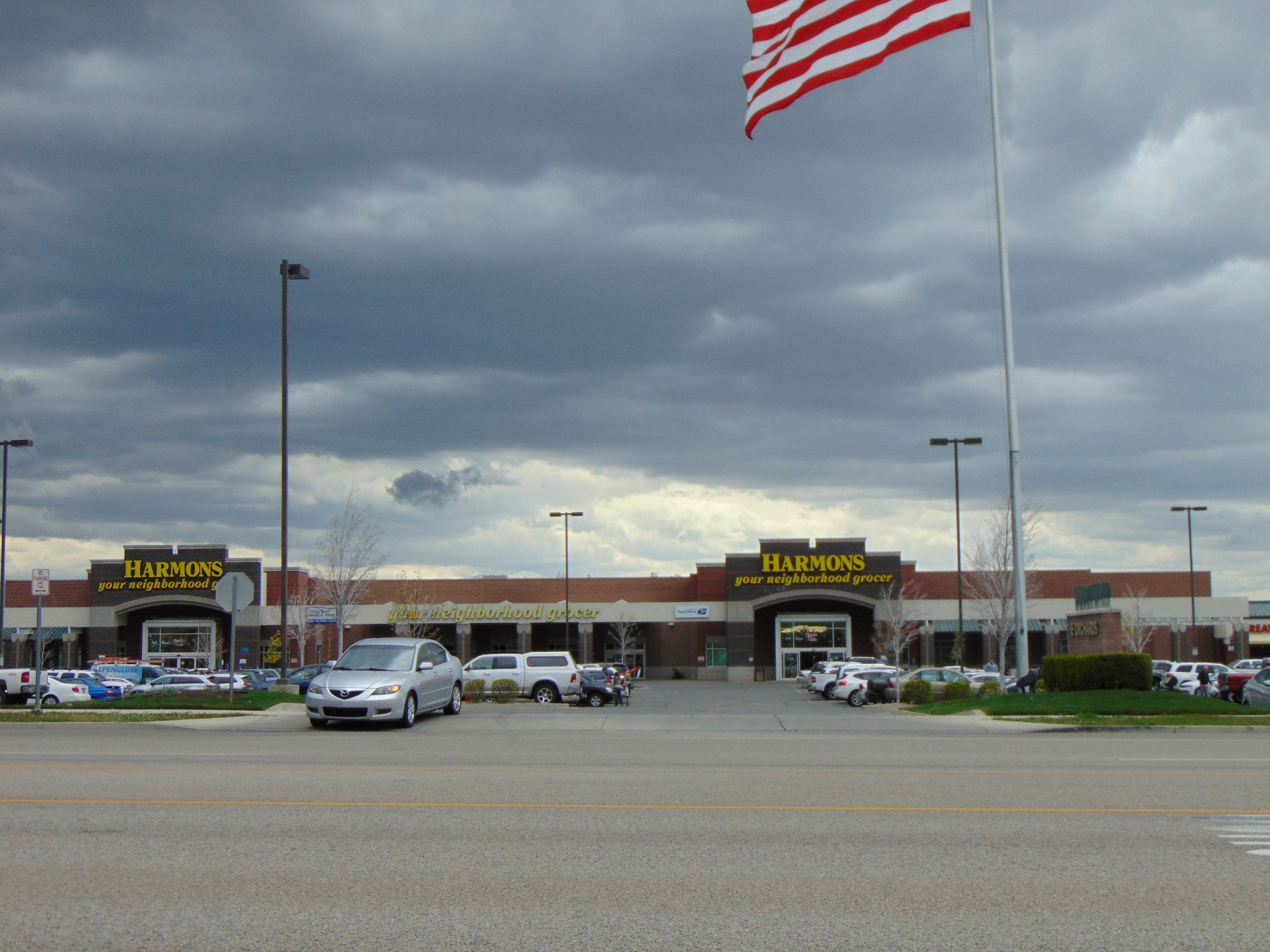 Looking south across the parking lot at the Harmons supermarket on East 800 North (Utah State Route 52) in Orem, Utah, April 2016